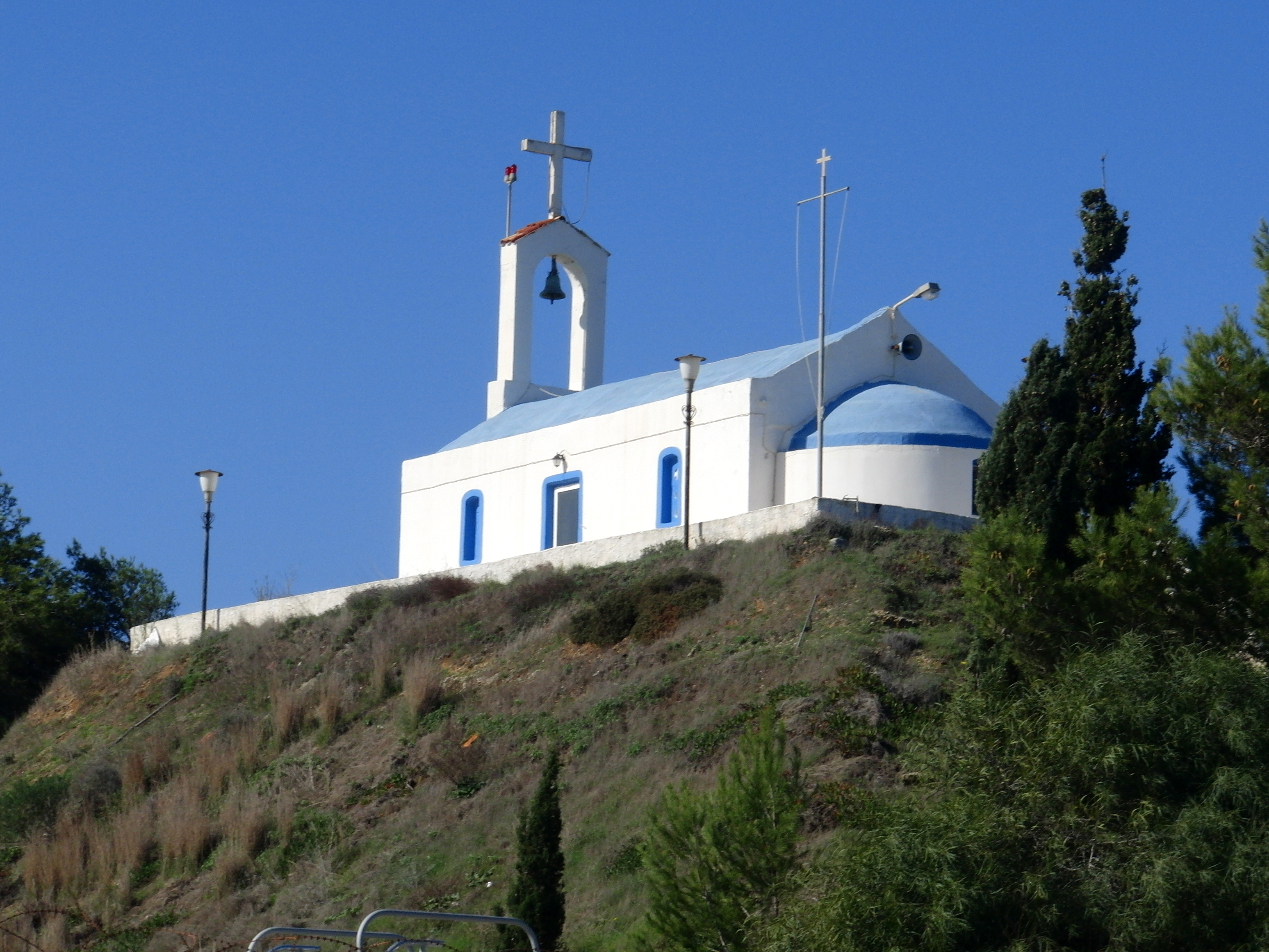 Small chapel near the Hippokrates Airport Kos in Antimachia, Kos, Greece.